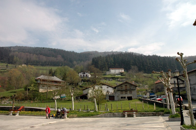 View of Gaztelu